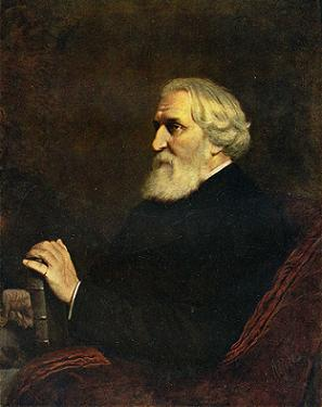 Portrait of Turgenev by Vasily Perov, 1872